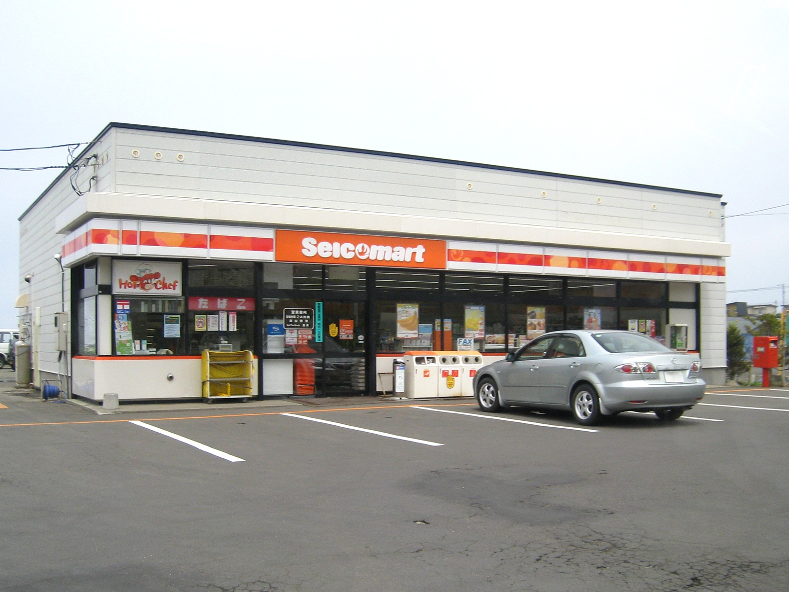 Convenience store Nishihama Seicomart in Nemuro, Hokkaido, This photo taken in June 20, 2008